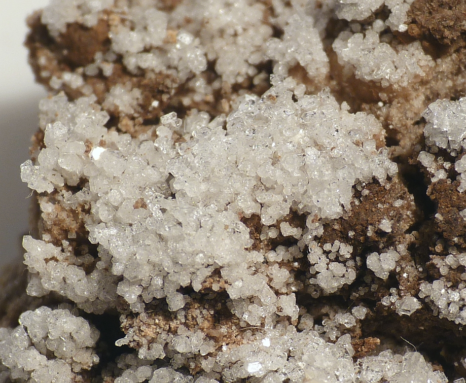 Salammoniac Locality: Eisden Mine, Maasmechelen, Limburg Province, Belgium Field of view 1.5 cm. Specimen and photo Leon Hupperichs.